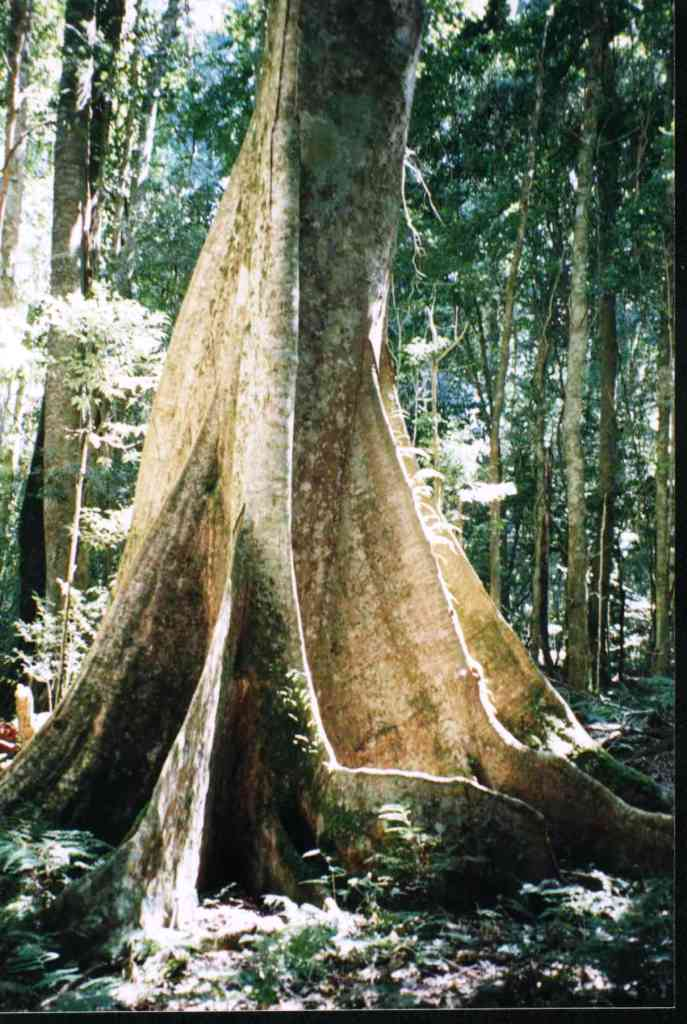 Yellow_Carabeen_-_Cobcroft_Rest_Area_-_Werrikimbe_National_Park